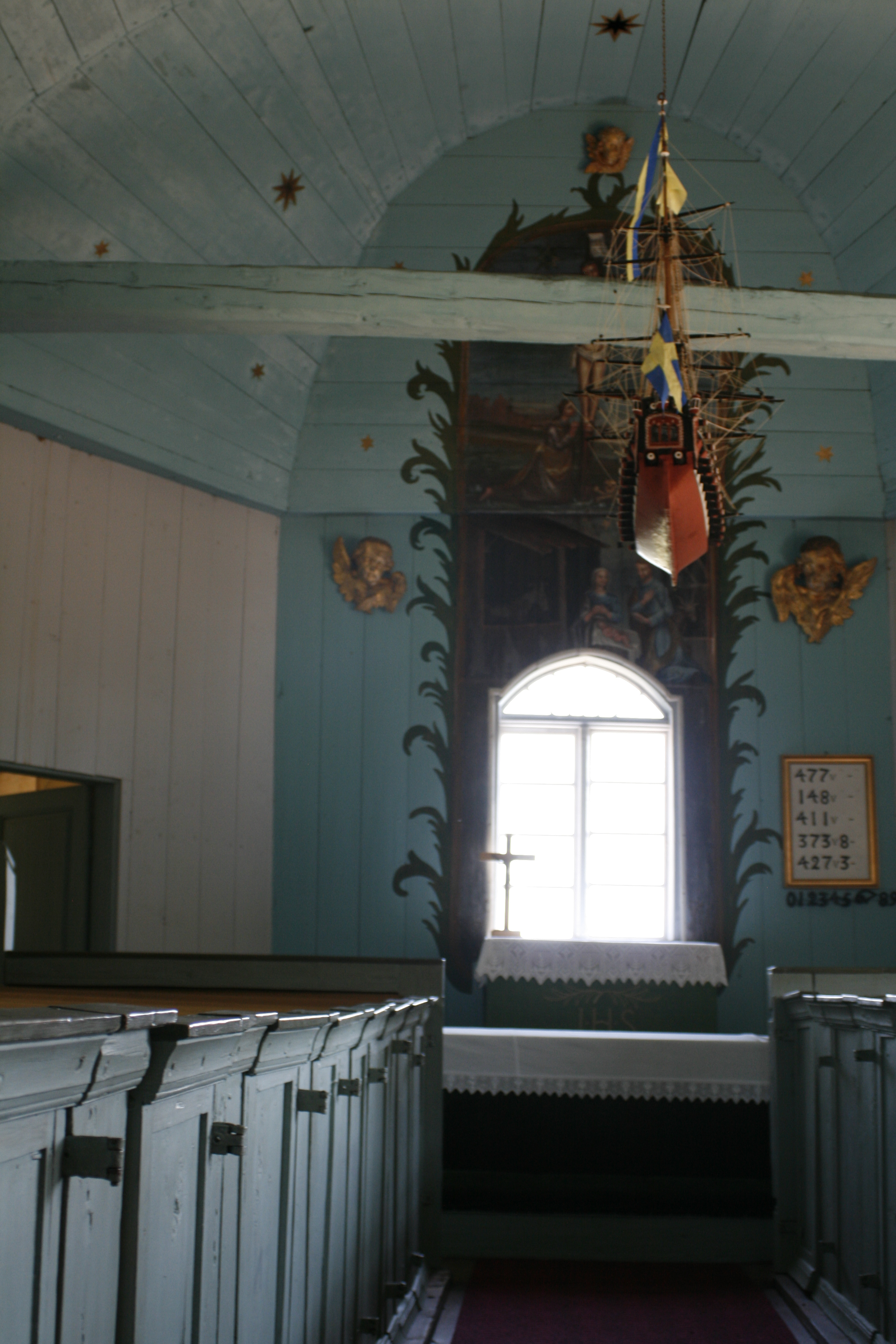 Picture of the altar in the Nötö church, Nagu, Finland. Altar painting by Gustaf Lucander (1743–1805).